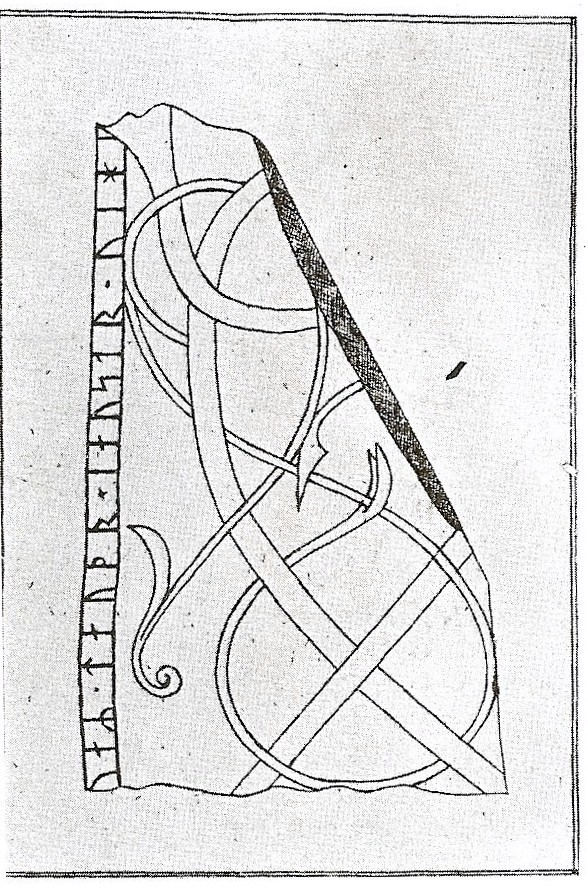 drawing of lost runestone fragment U 366 at Gådersta, Skepptuna socken, Vallentuna.